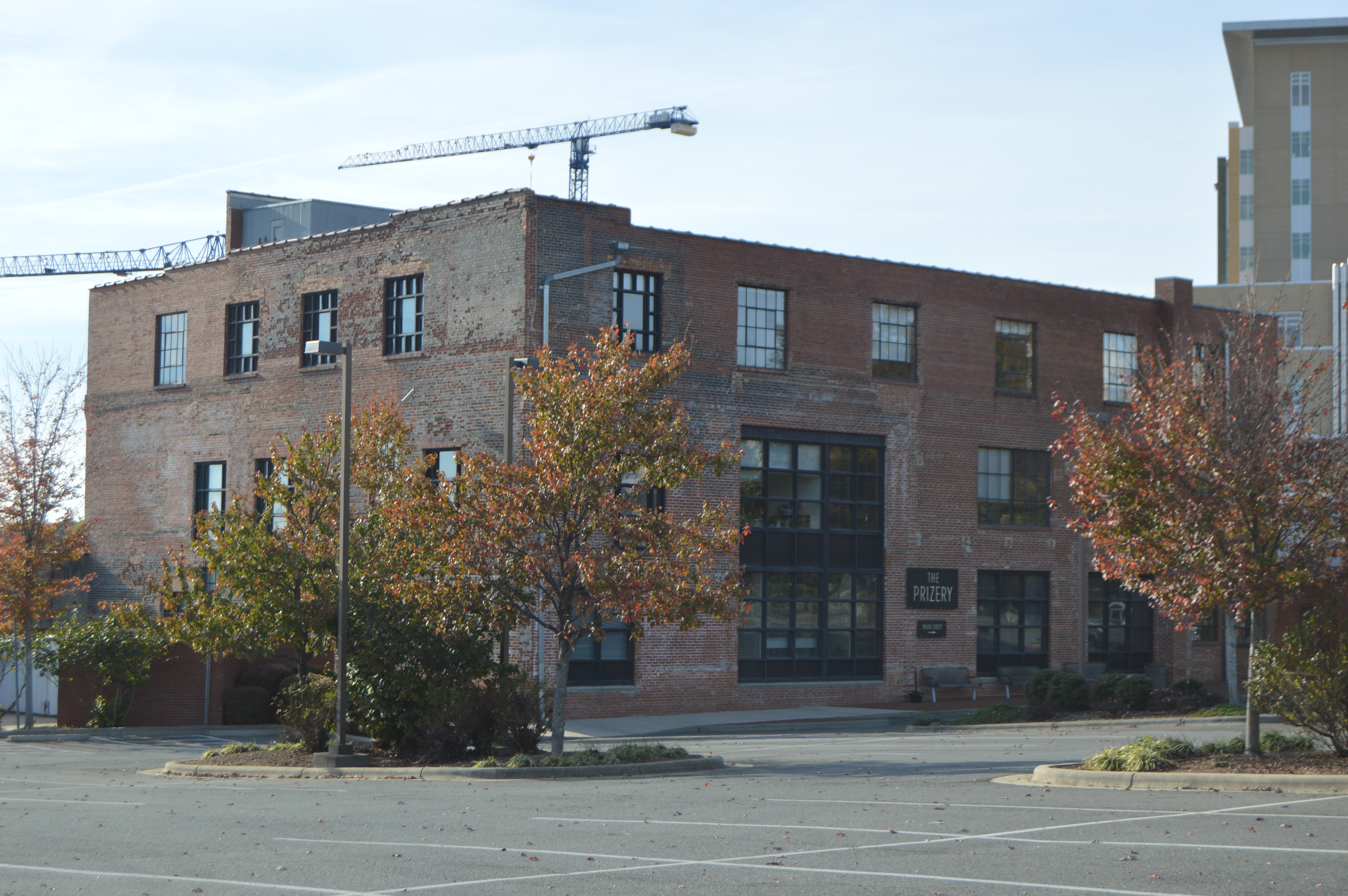 Front and southeastern side of the Venable Tobacco Company Prizery, located on Pettigrew Street east of Roxboro Street in Durham, North Carolina, United States. Built in 1930, it is listed on the National Register of Historic Places.